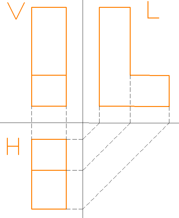 The three orthographic projections of the L shaped 3D figure